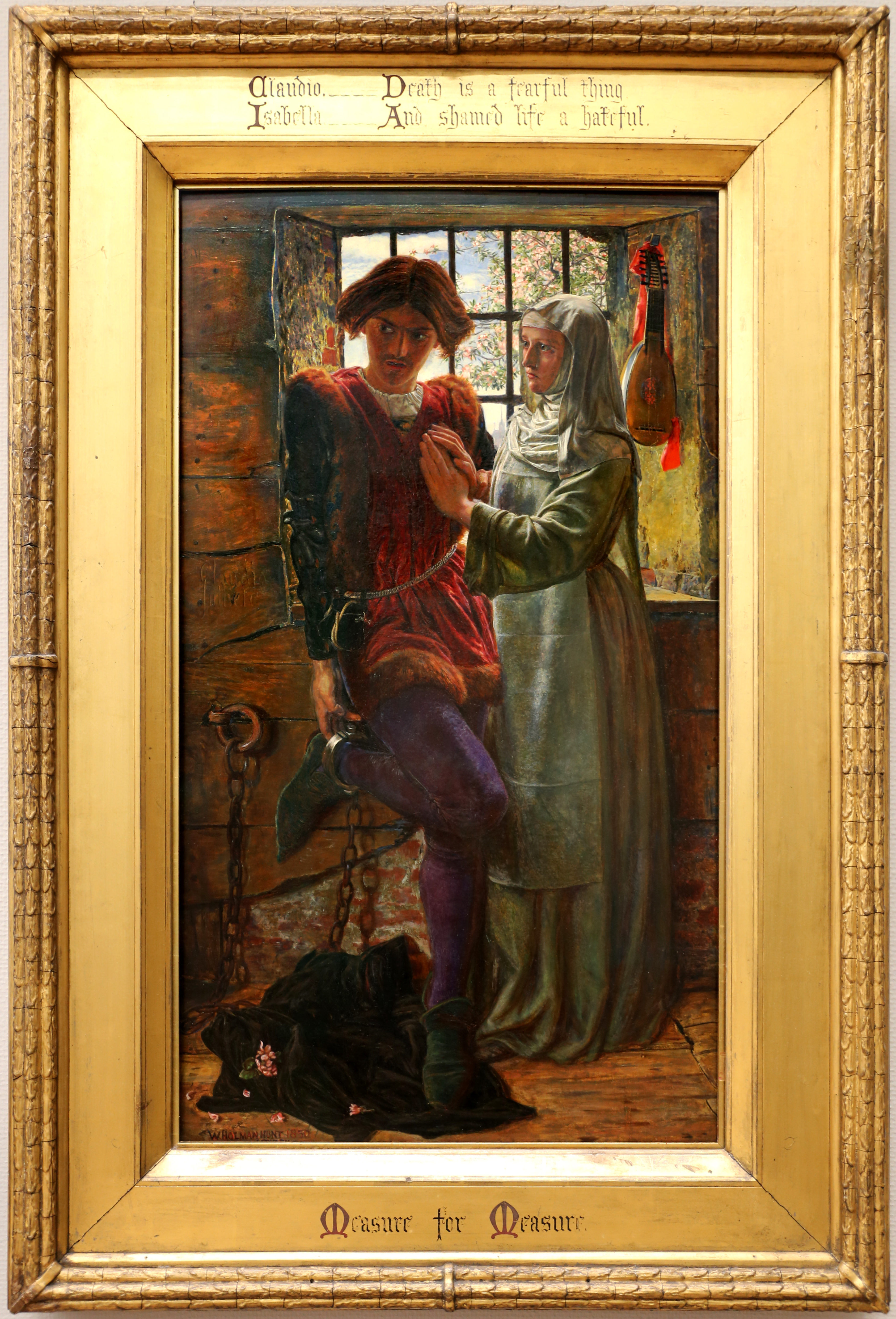 Paintings in Tate Britain